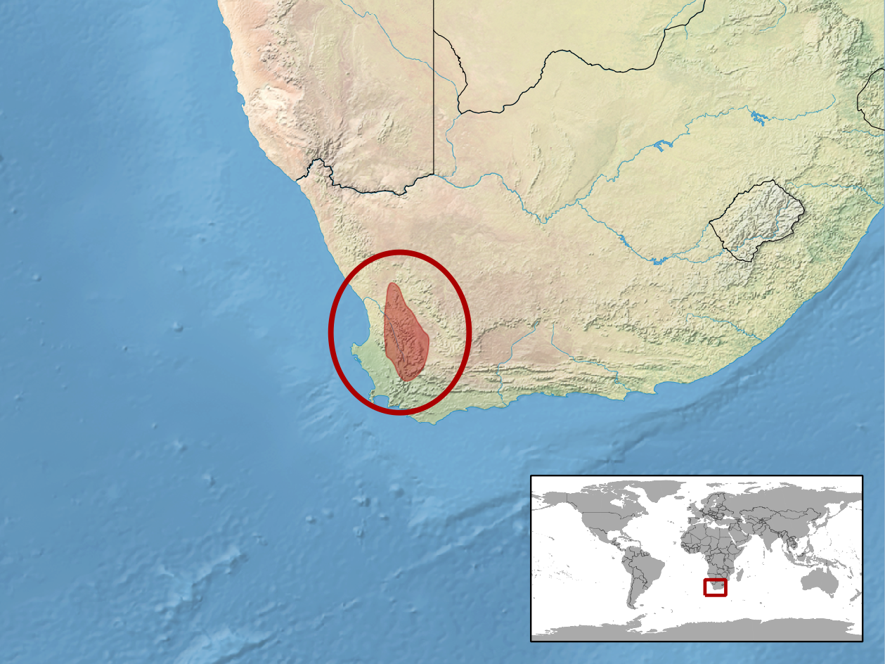 geographic distribution of Goggia hexapora (Native: South Africa)